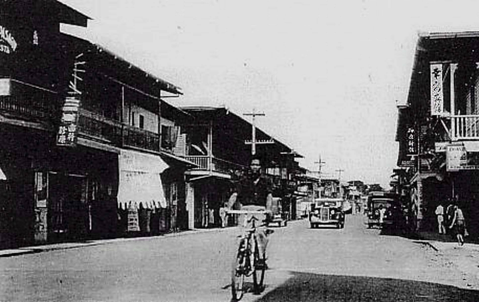 Davao Japantown in 1930s